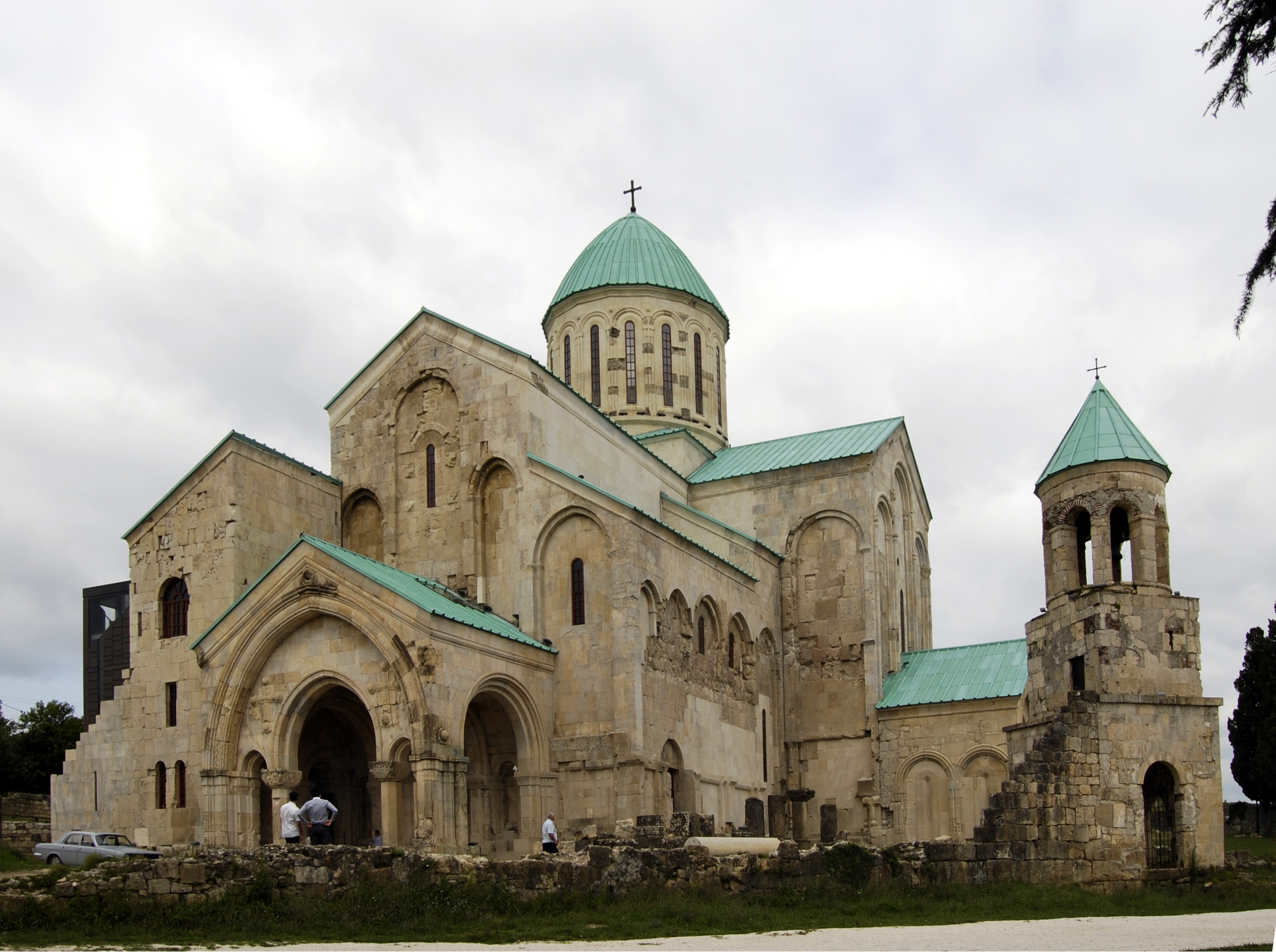 Bagrati Cathedral after 2012 reconstruction.